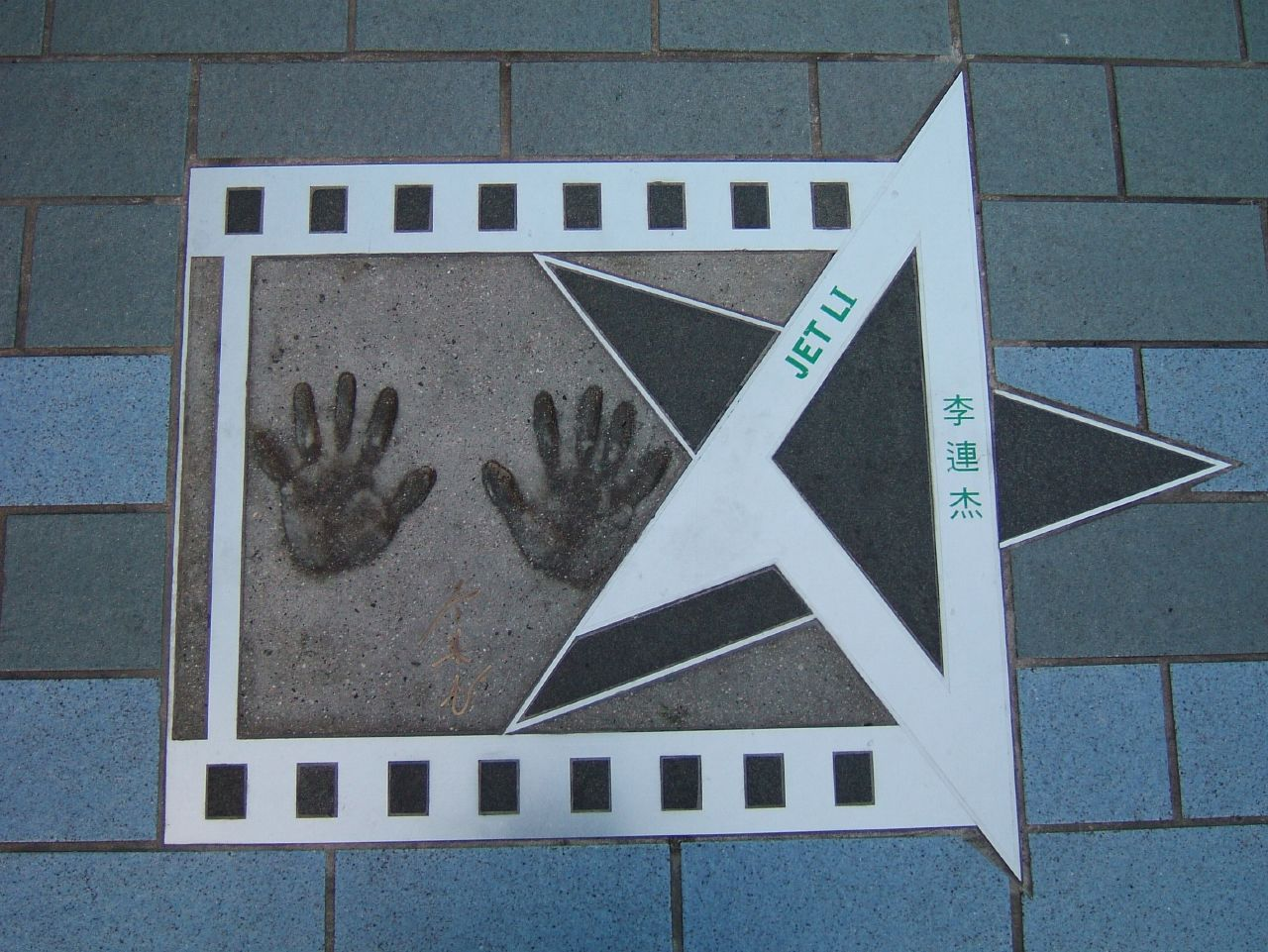 Jet Li's handprints on the Avenue of Stars, Hong Kong